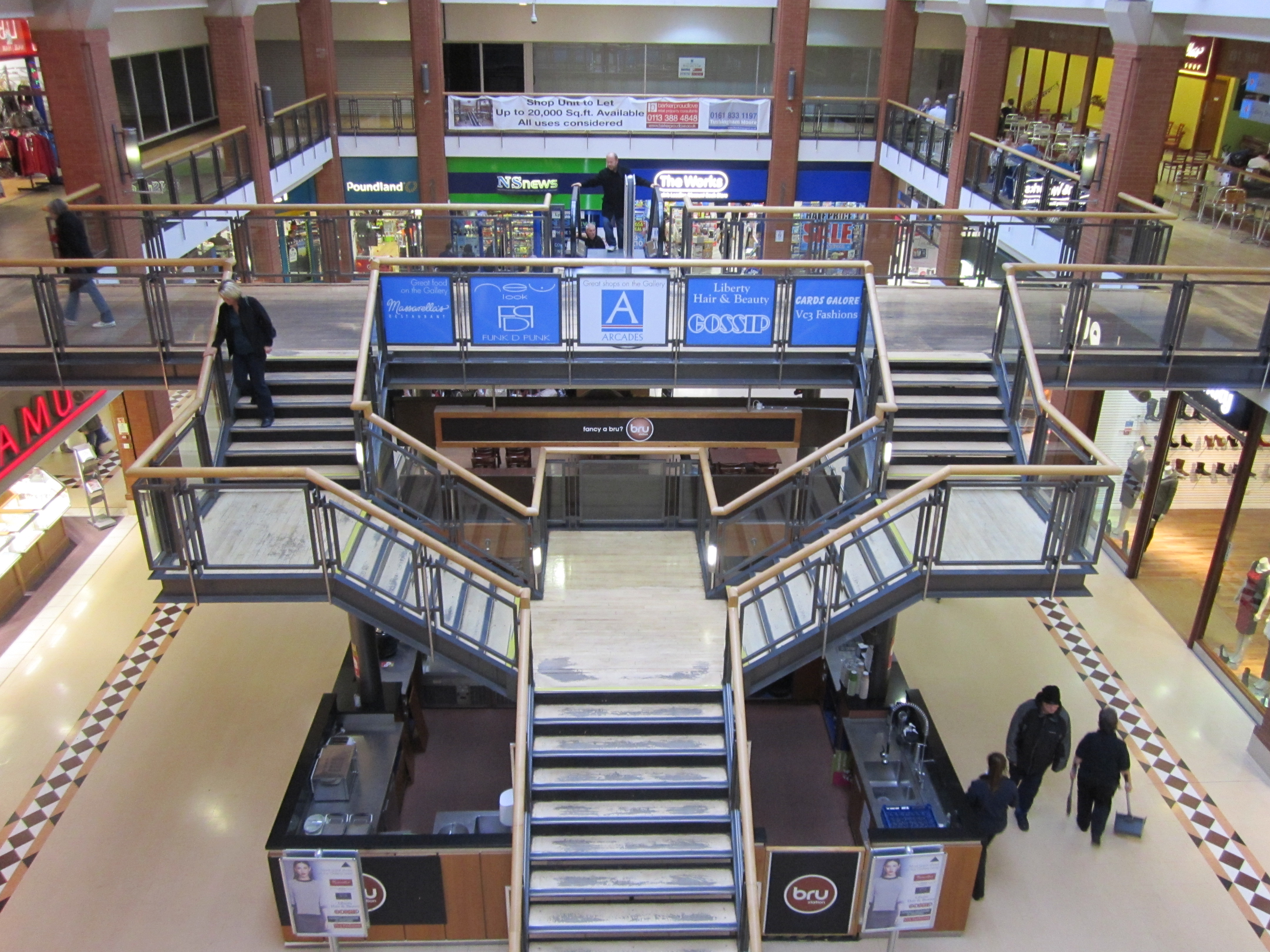 Inside The Arcades shopping centre, Ashton-under-Lyne, Greater Manchester, England.